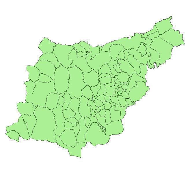 Municipalities of the province of Guipuscoa (Spain)